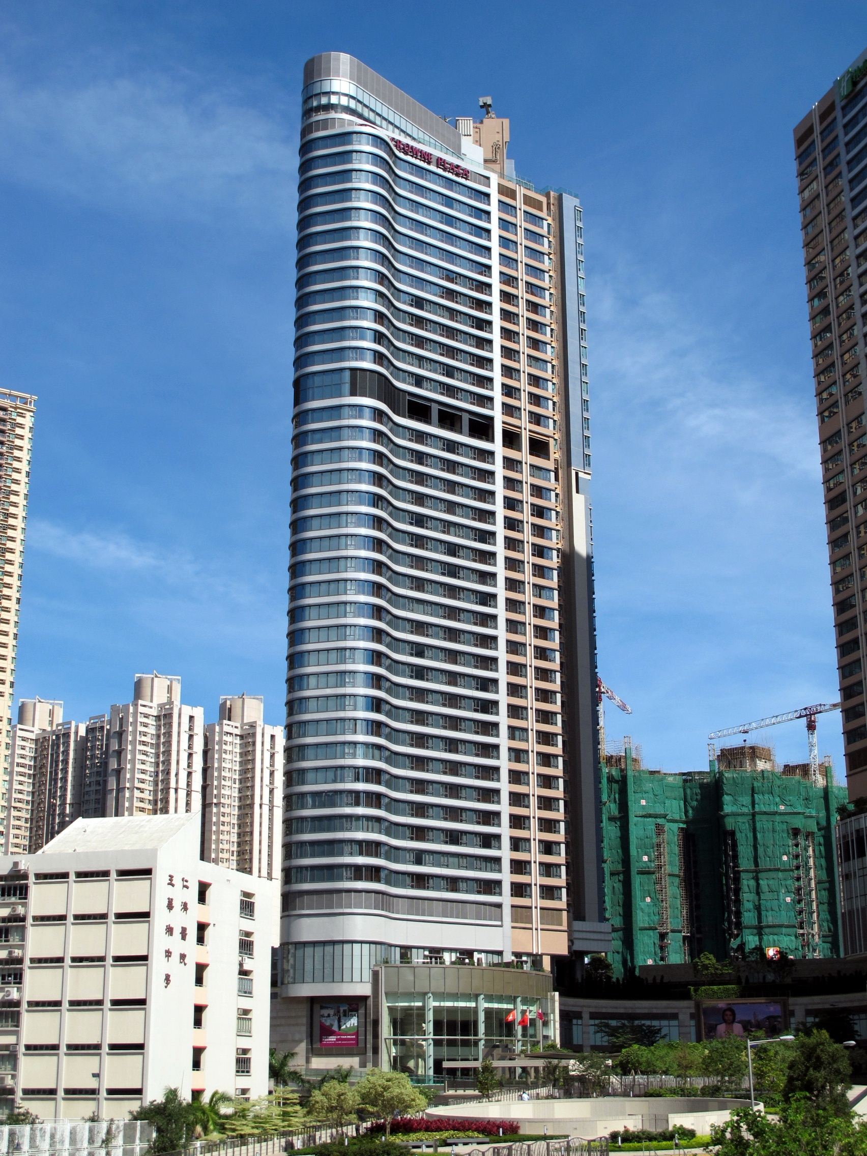 Crowne Plaza Hong Kong Kowloon East 香港九龍東皇冠假日酒店